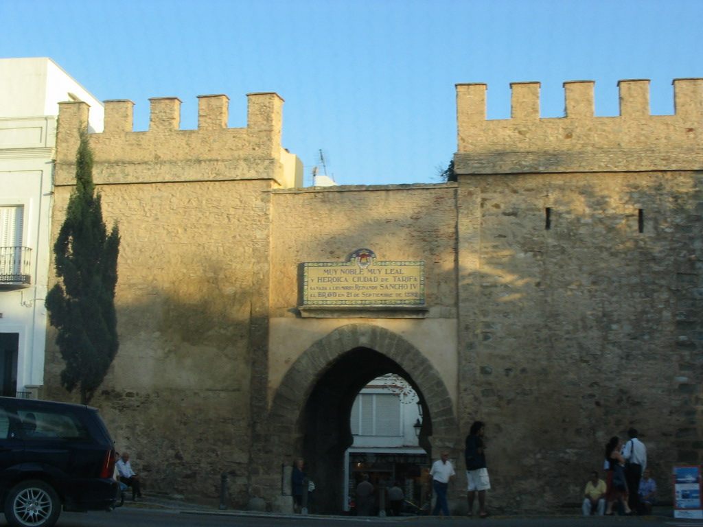 Picture taken by myself. Tarifa